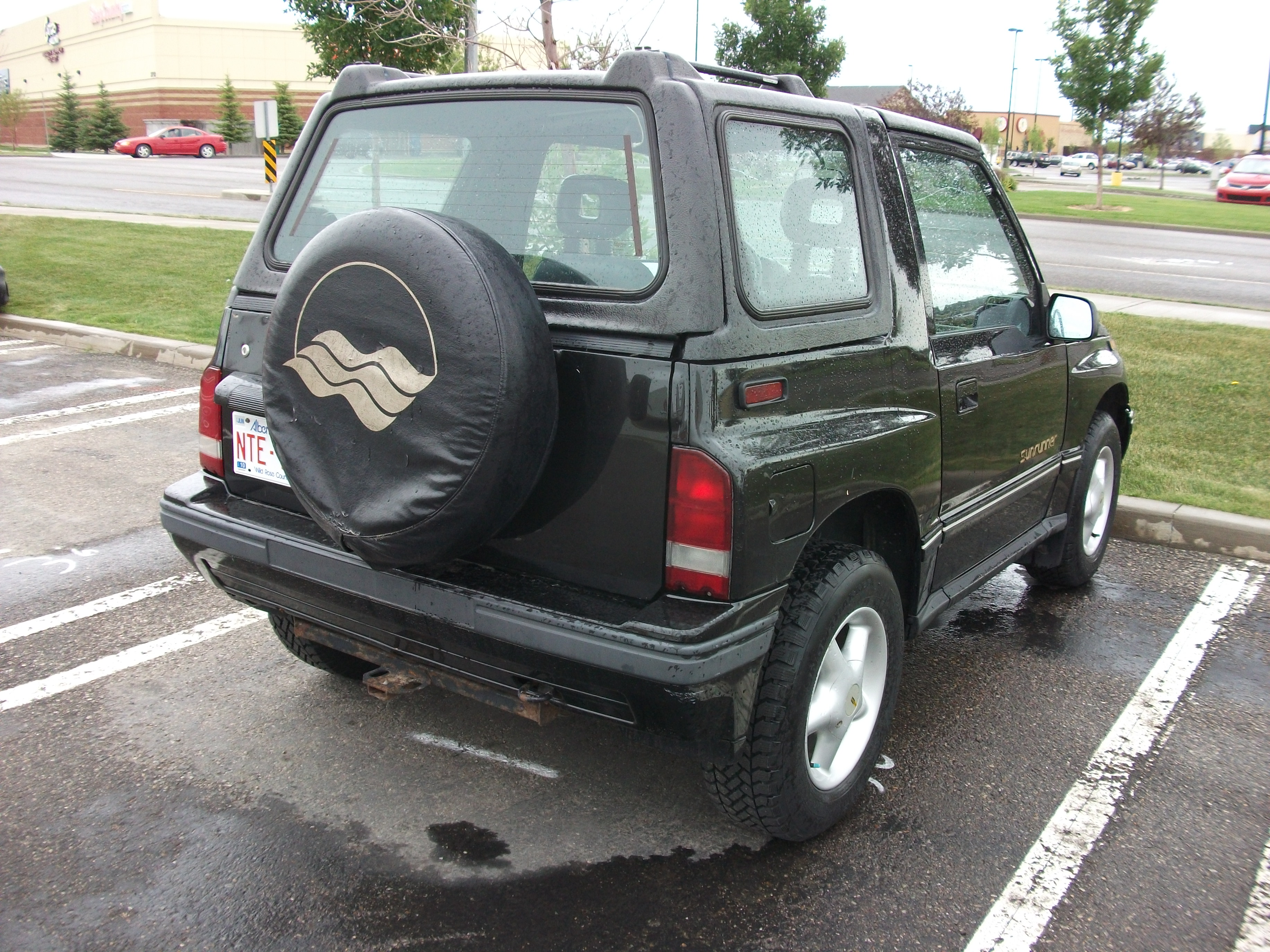 Asuna Sunrunner